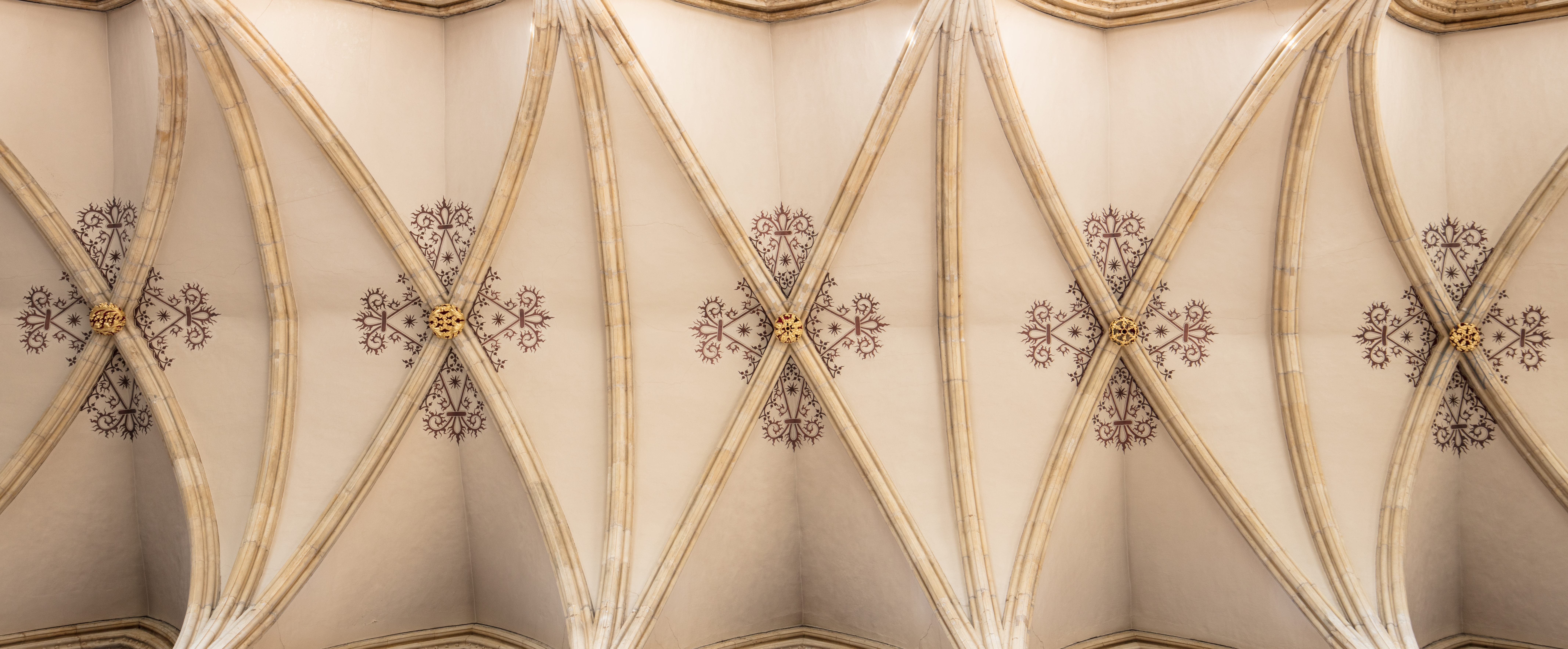 Here is a photograph taken of the ceiling inside the nave of Beverley Minster. Located in Beverly, Yorkshire, England, UK.